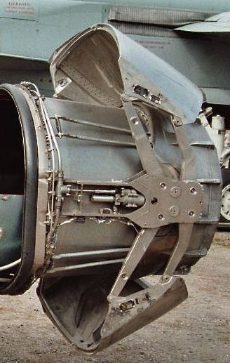 Detail of the thrust reverser of a Rolls-Royce RB.199 engine